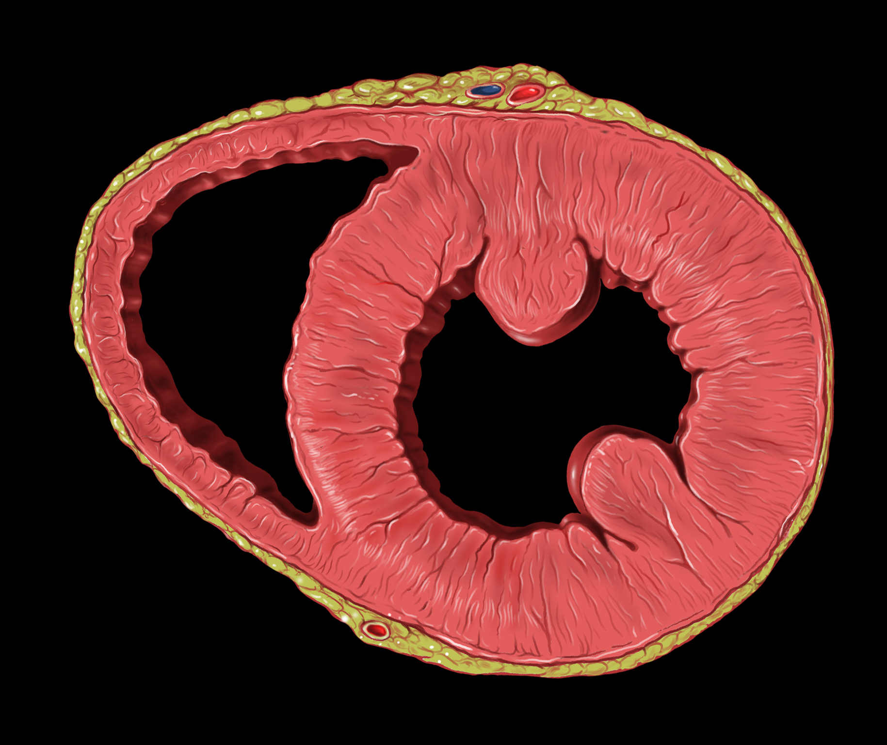 Heart normal transgastric transesophageal echocardiography view